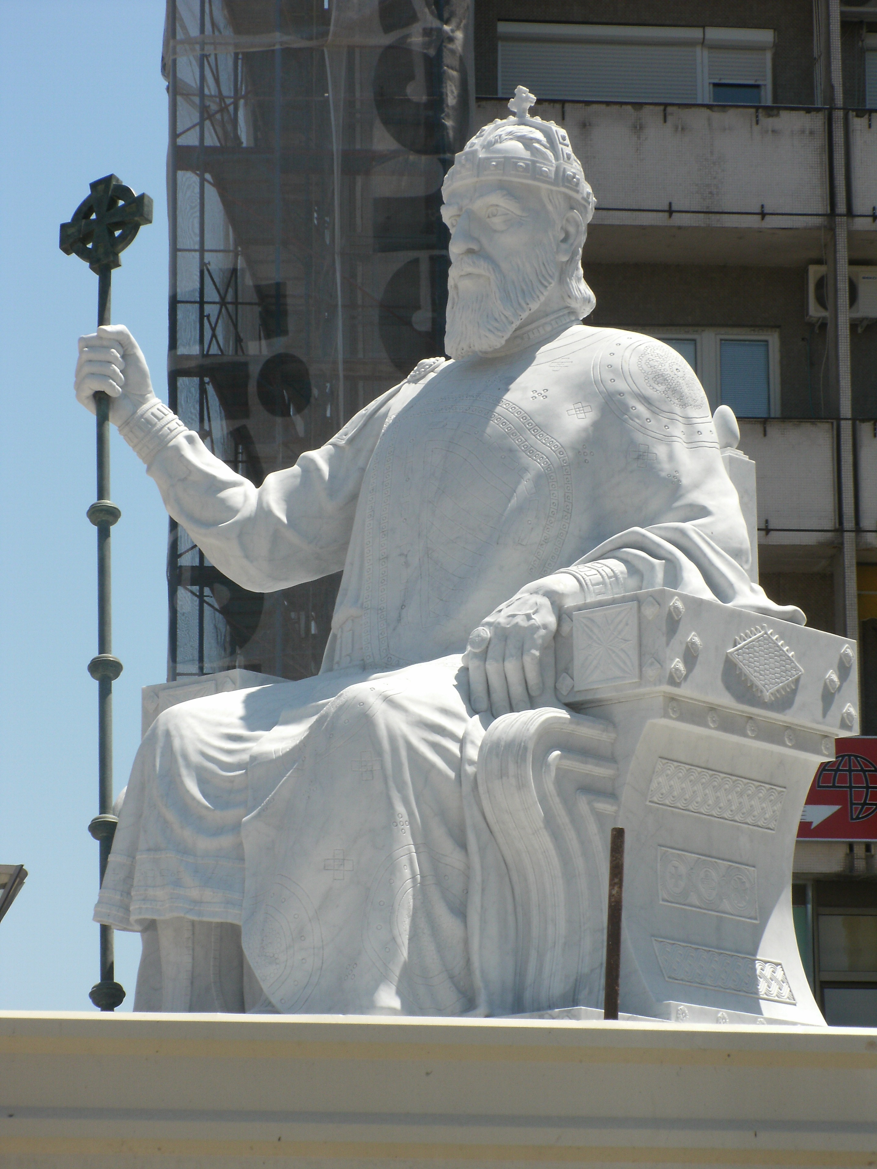 Samuil Monuments in Skopje